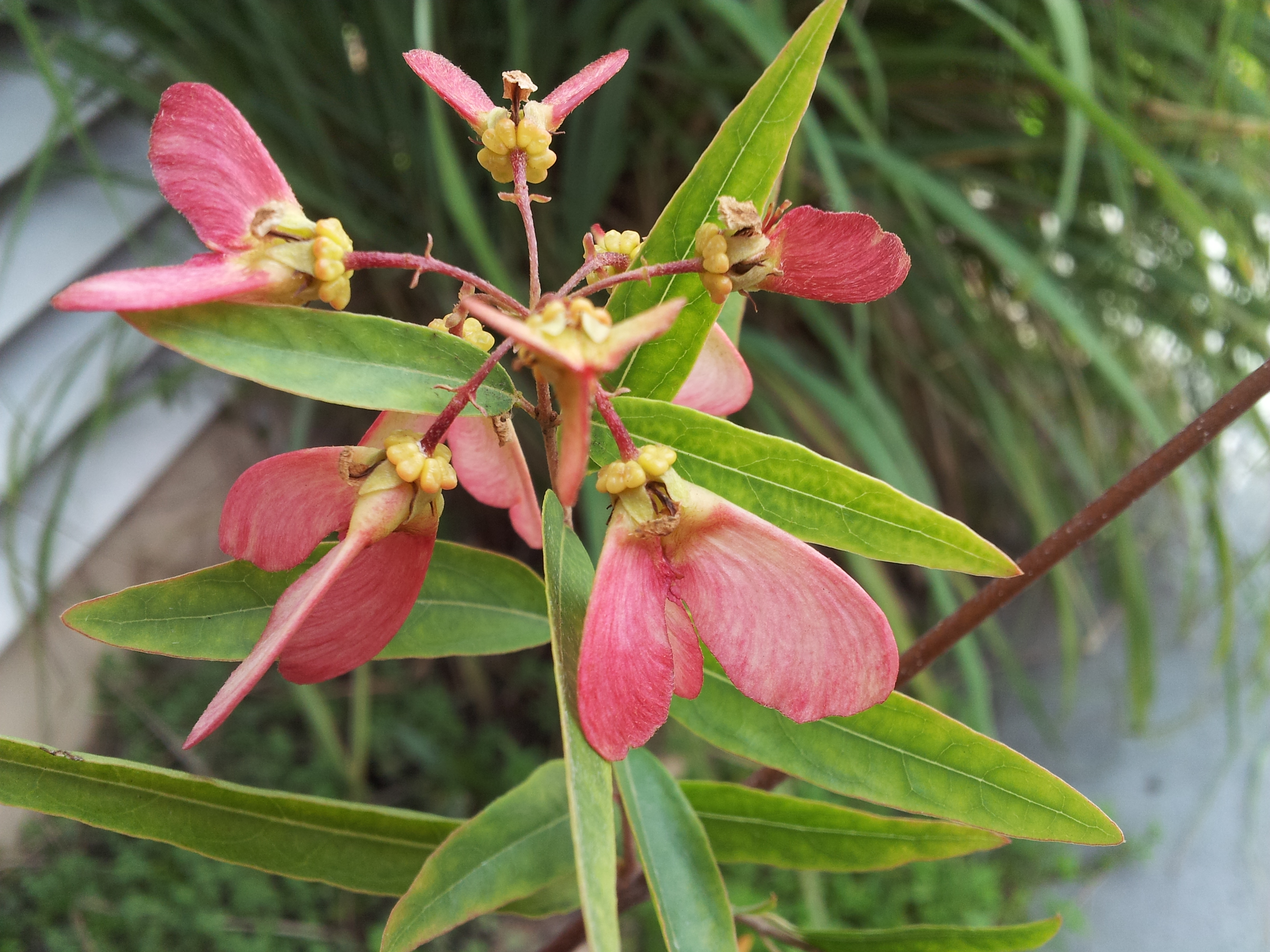 False Linden, Butterfly Flower, Little Butterfly Plant, with the samara type fruit